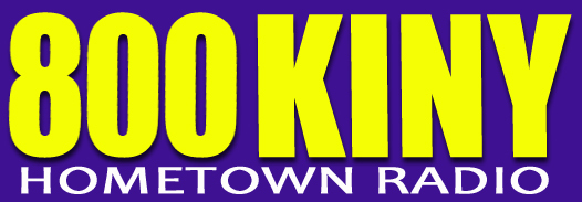 Former logo of the radio station KINY used from June 2008 through late 2012.